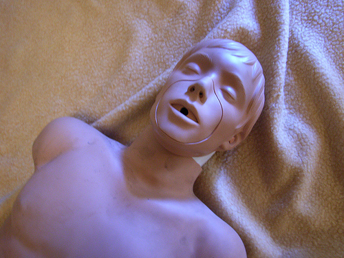 Medical simulation mannequin to practice CPR and AED. At an Emergency lifesaving class in Japan.